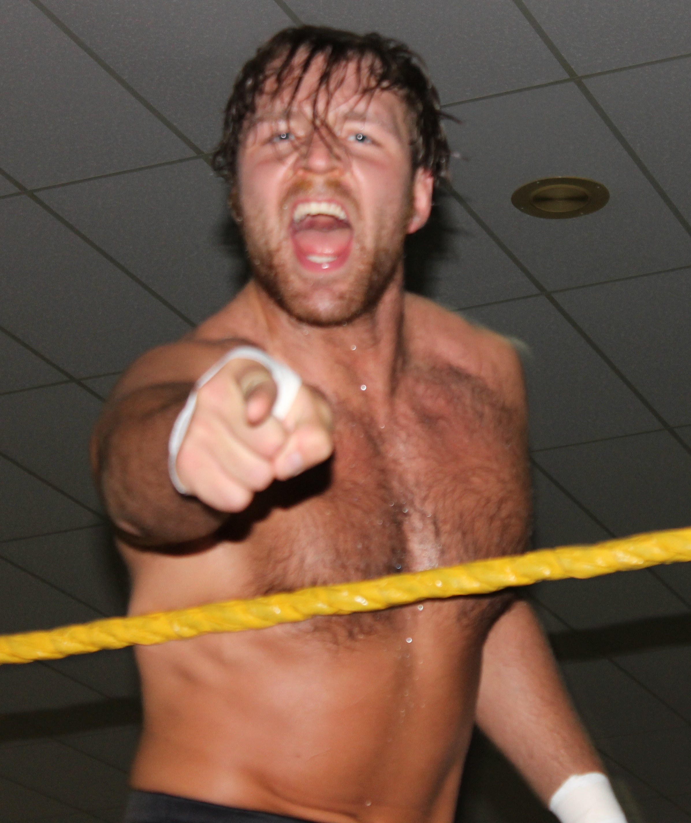 Dean Ambrose yells at fan at NXT event on October 2012.